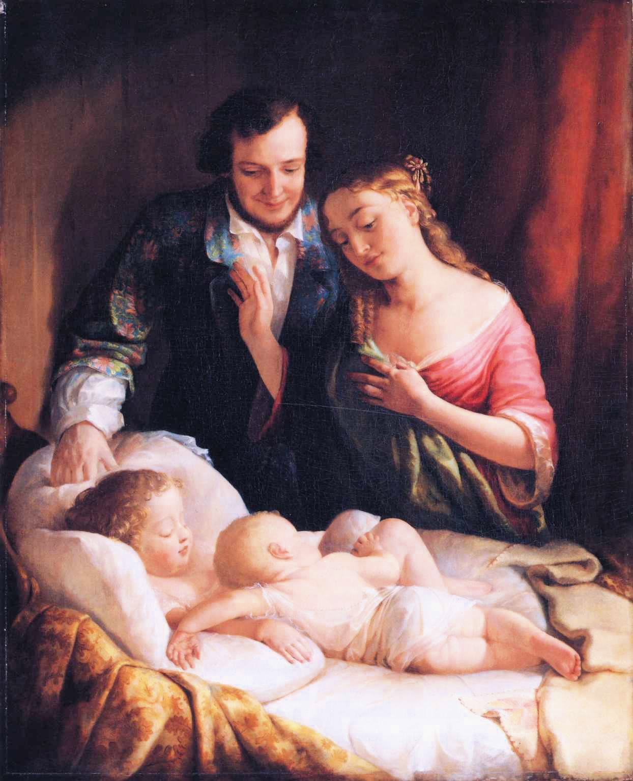 Dimensions and material of painting: Oil on canvas, 55-1/2 x 45-1/4 in